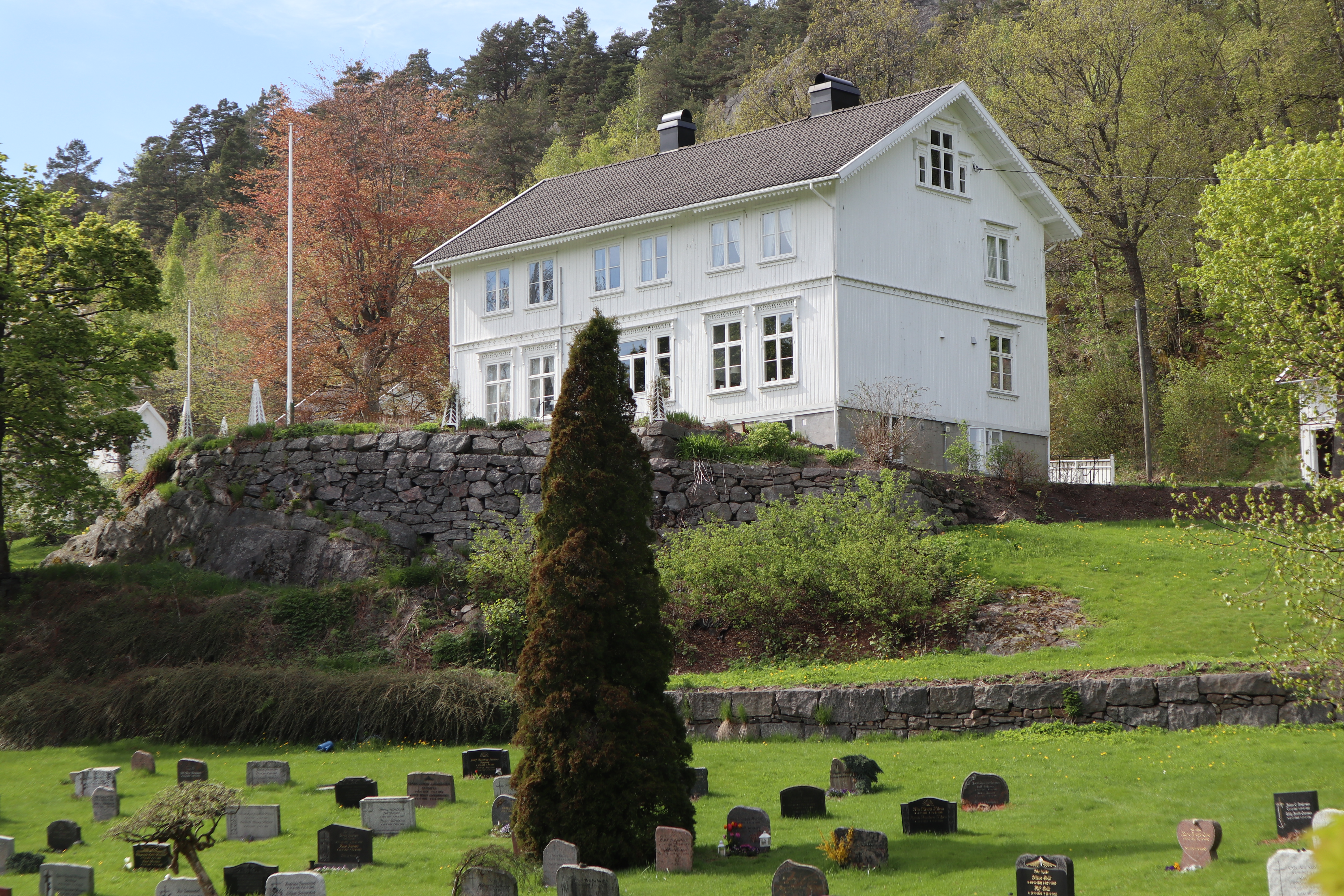 Dypvåg prestegård inTvedestrand muncipality. Protected by law.